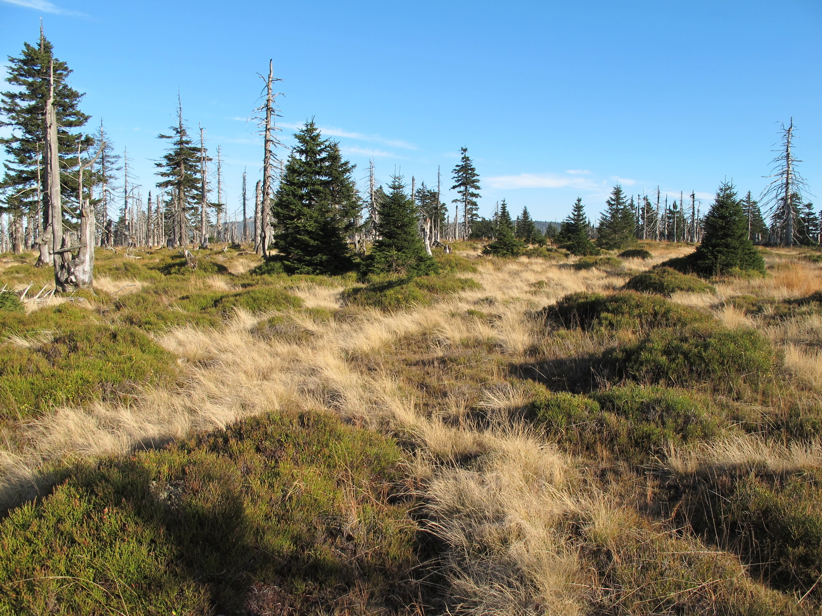 Summit of the Mumlavská hora in the Krkonoše Mountains